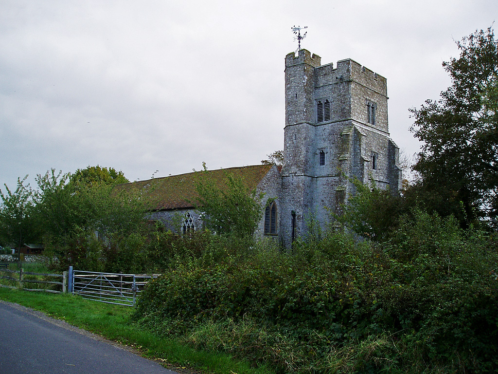 The church of St Peter & St Paul at Newchurch on Romney Marsh, Kent.